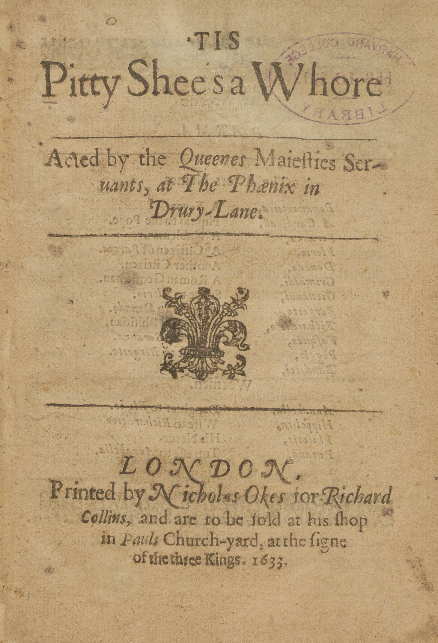 Title page from Tis Pitty Shee's a Whore, acted by the Queenes Maiesties Seruants, at The Phoenix in Drury-lane, by John Ford (1586 – c.1640). London, Printed by Nicholas Okes for Richard Collins, and are to be sold at his shop in Pauls Church-yard, at the signe of the three Kings. 1633. STC 11165, Houghton Library, Harvard University